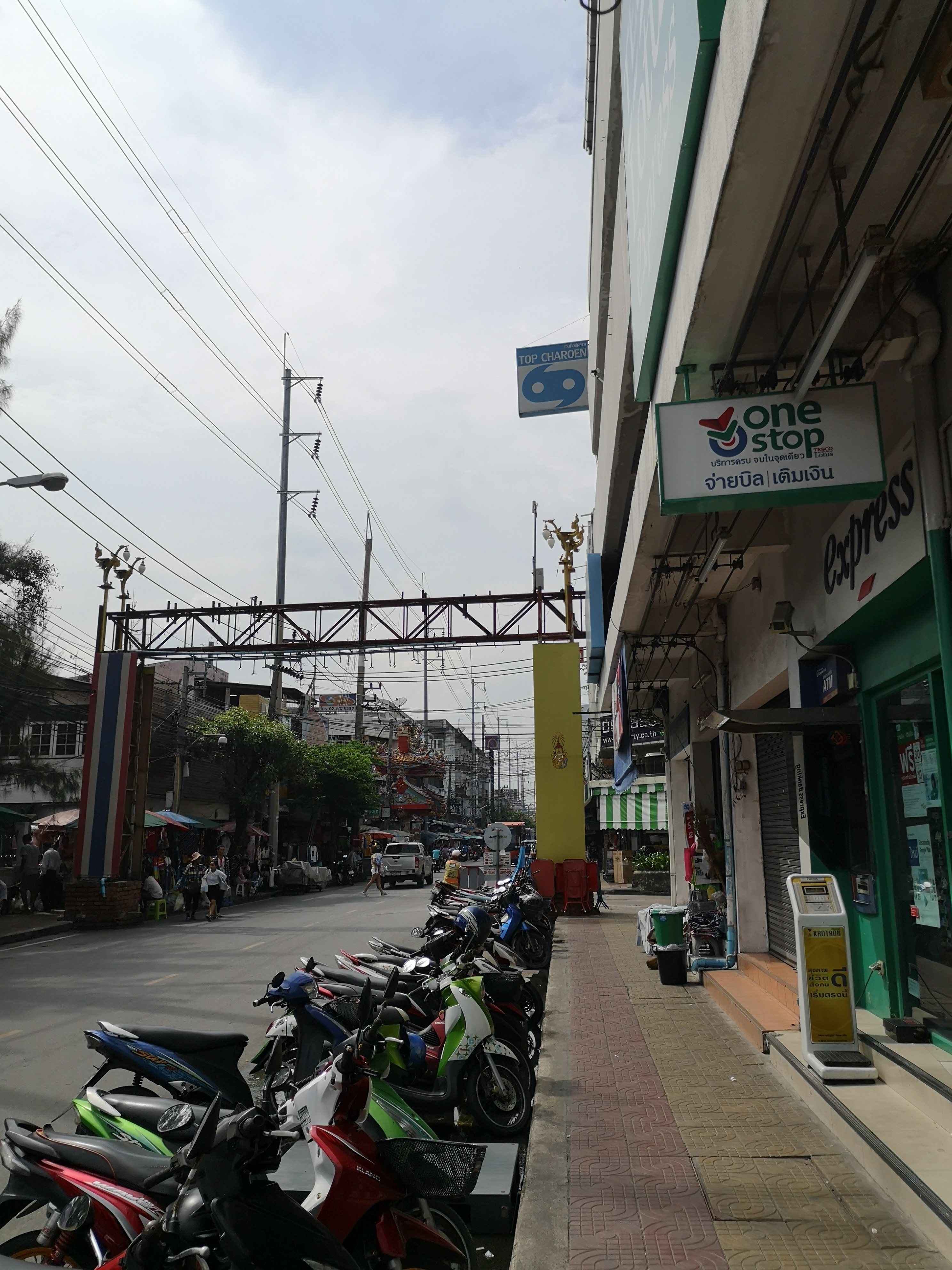 Thanon Nakorn Khuean Khan